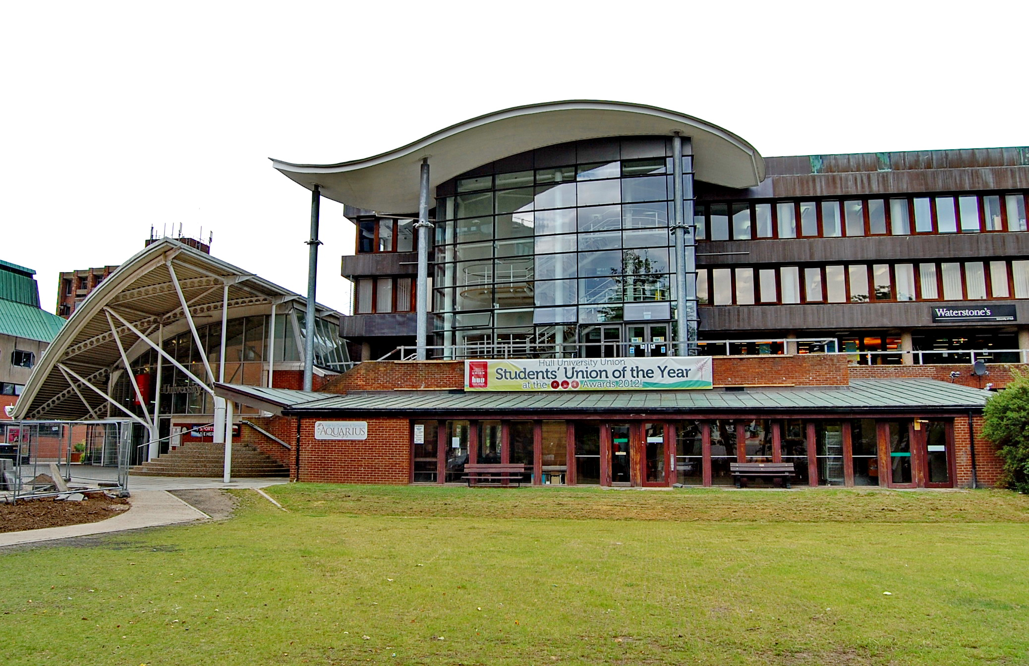 University of Hull Union building